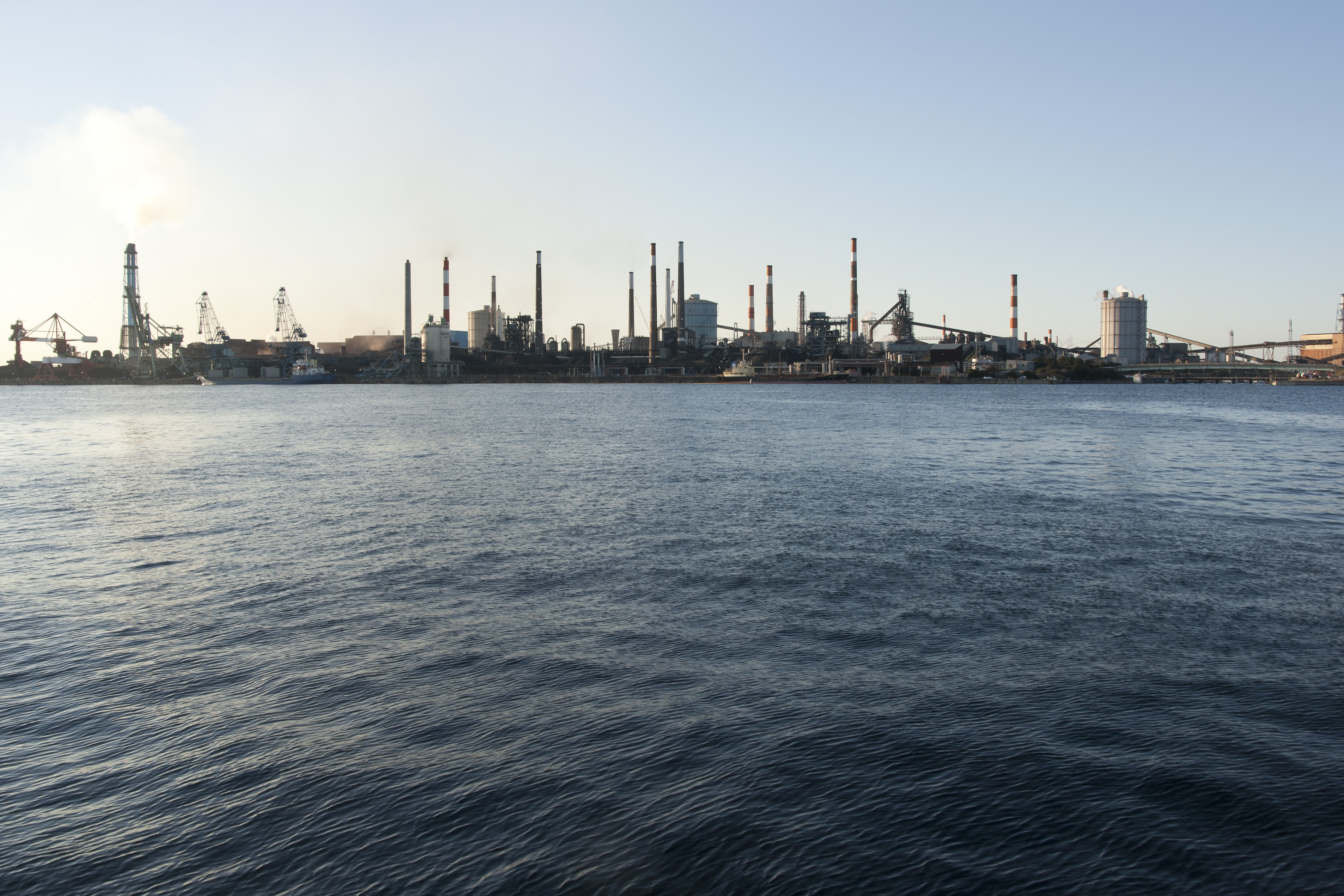 Kashima steel works, Kashima City, Ibaraki Pref., Japan